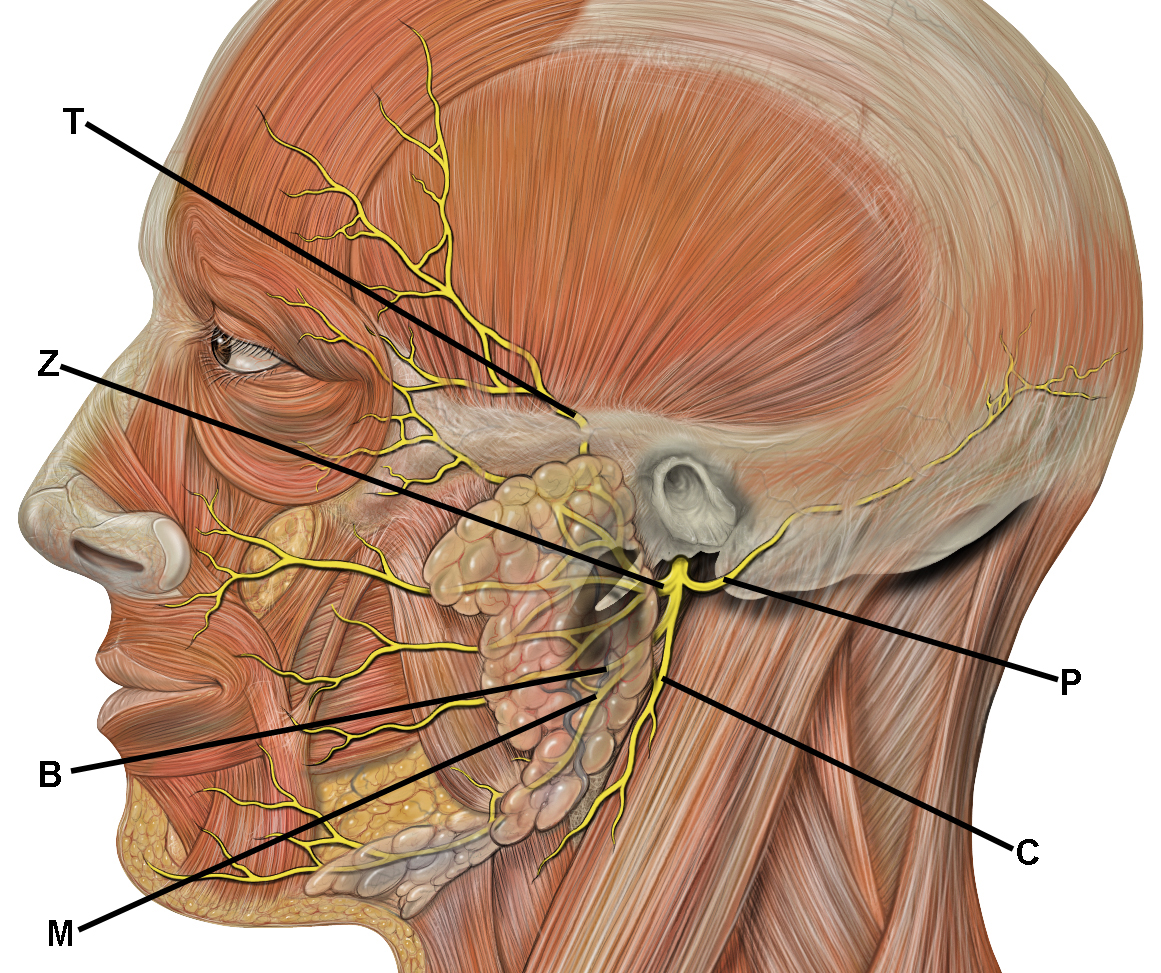 Head facial nerve superfical branches